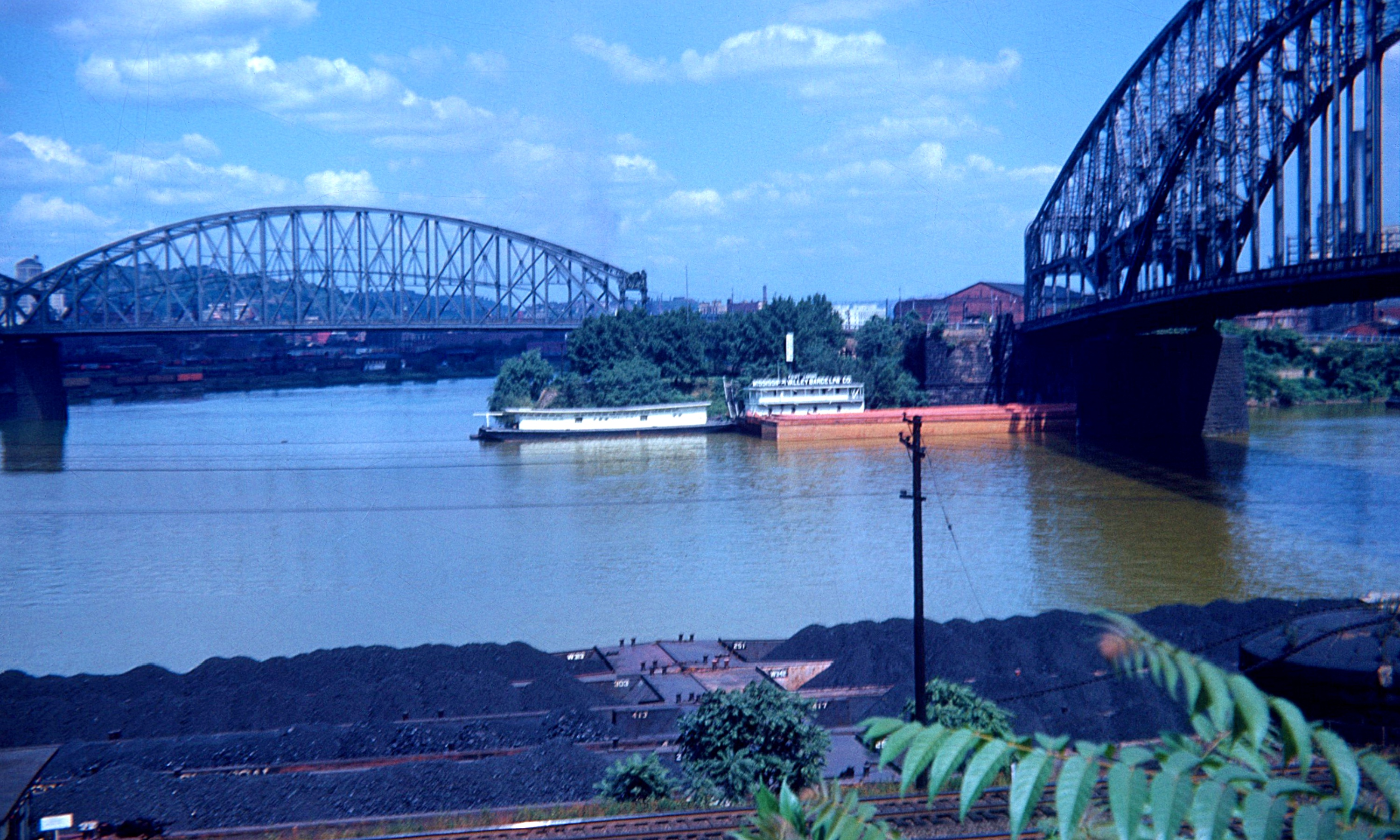 This is the "Point" in Pittsburgh, PA, in 1951 from the shore of the Monongahela River. The Point Bridge II is on the right and the Manchester Bridge is on the left. Both bridges were demolished in 1970. Photo by J.V. Mullen (1898-1966). Date is estimated.